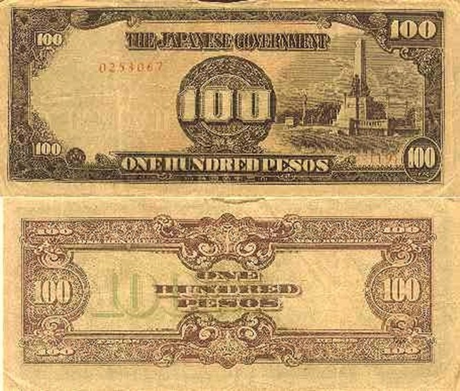 Japanese Invasion Money used in occupied Philippines, 1942-1945. One Hundred Pesos.